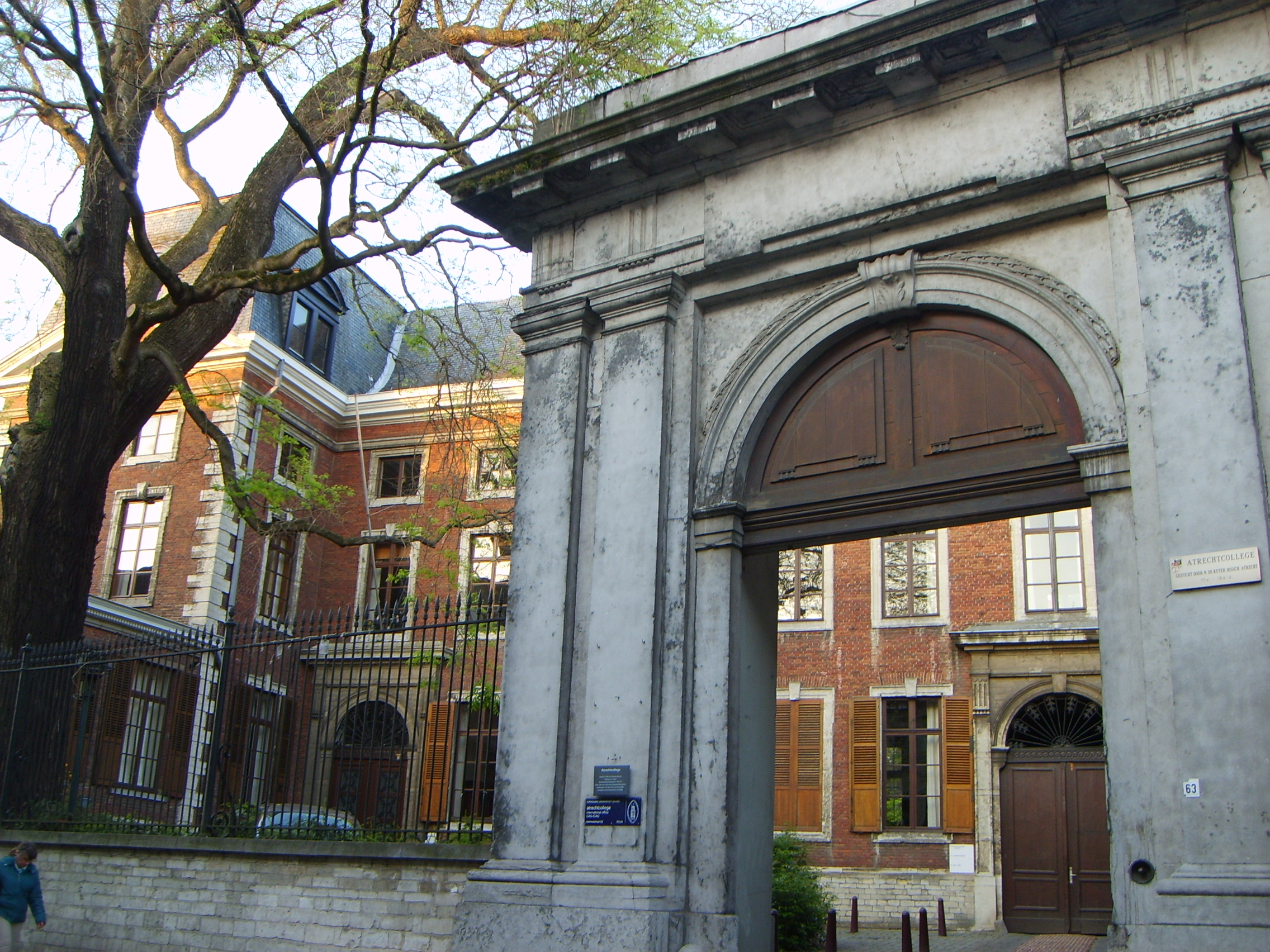 Arras College in Leuven (Belgium).